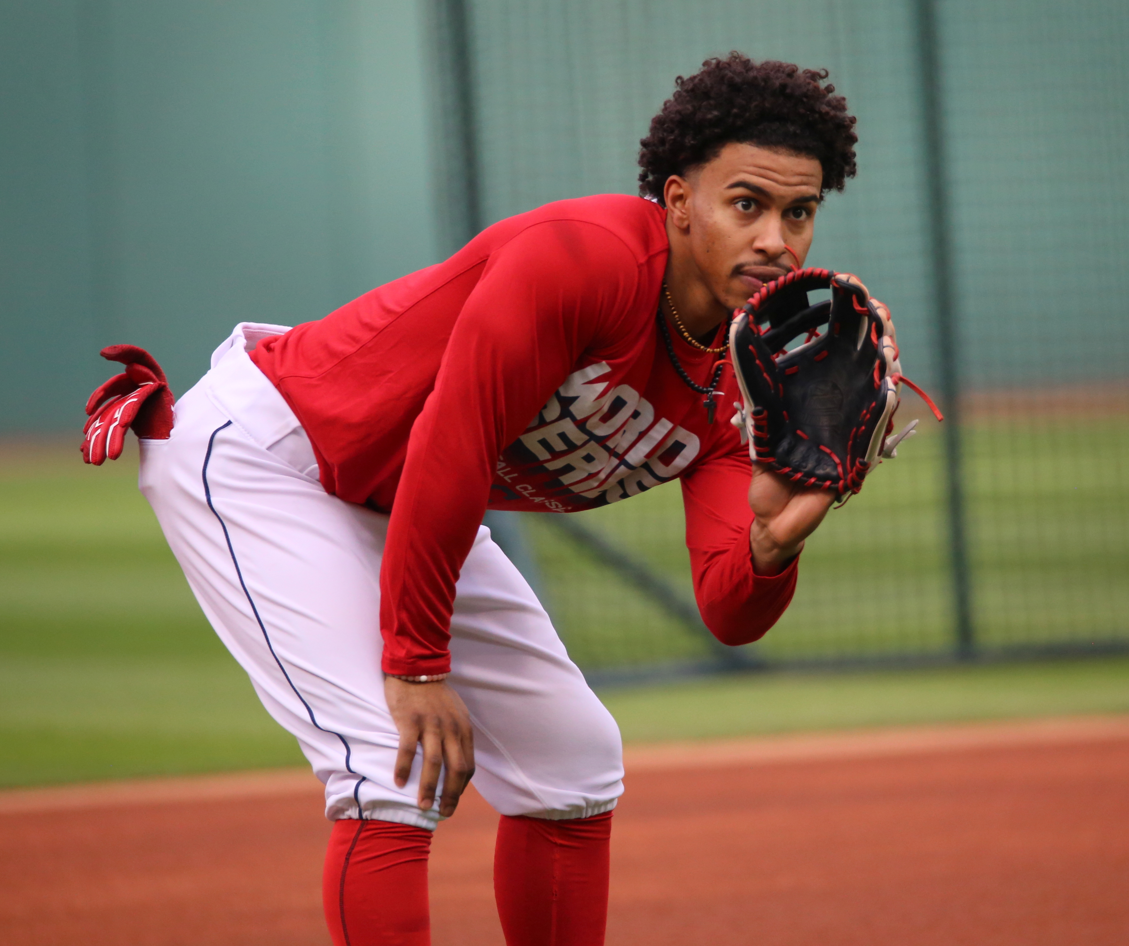 Indians shortstop Francisco Lindor works out before World Series Game 6.